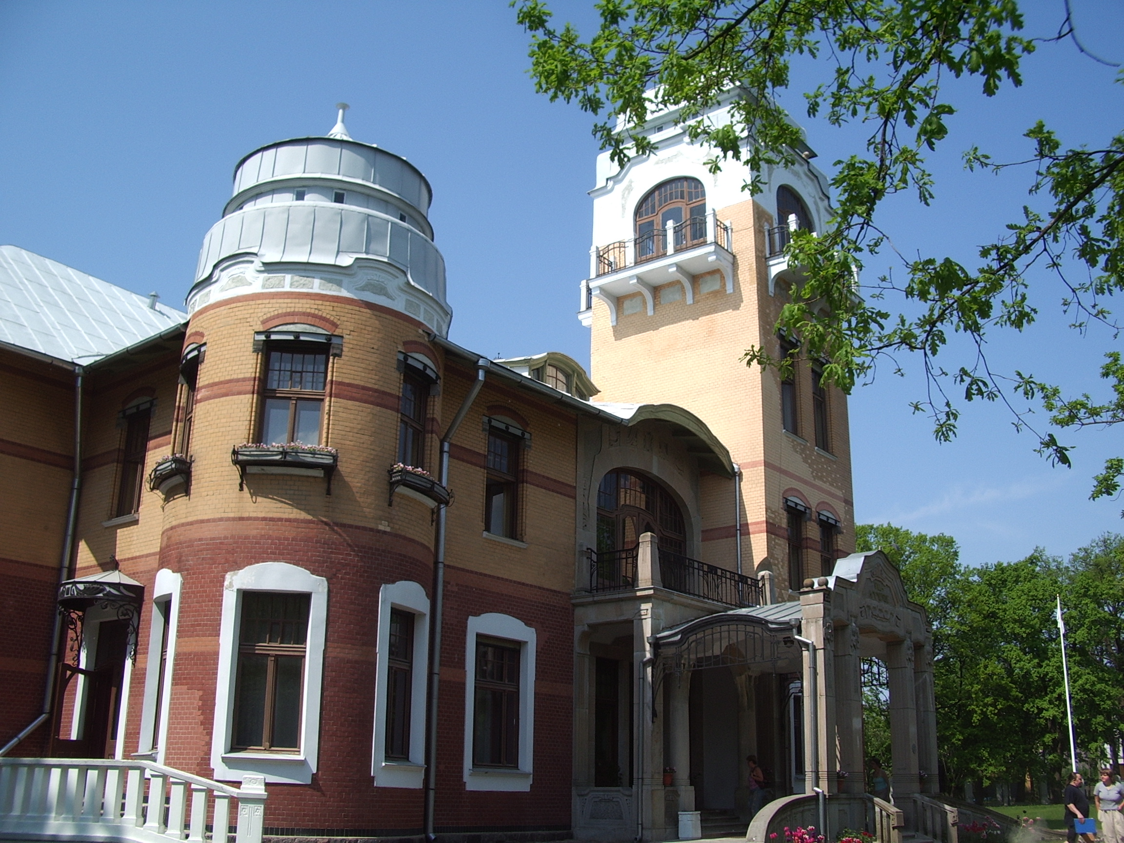 Ammende Villa in Pärnu town, 7 Mere boulevard